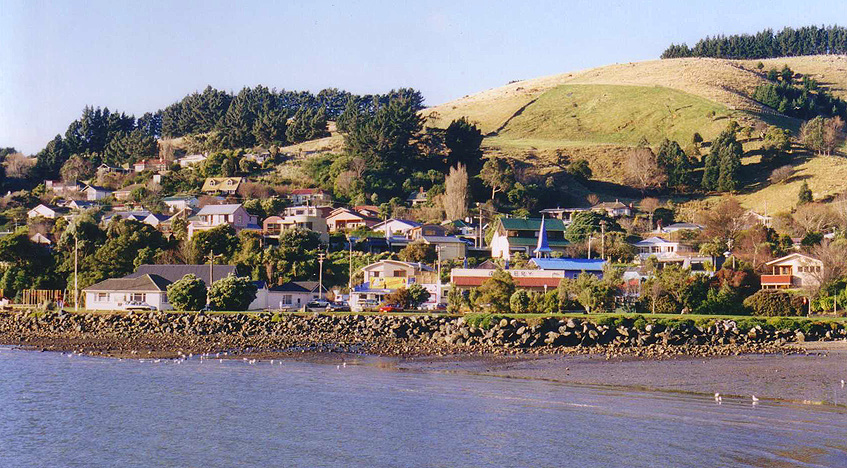 Macandrew Bay, New Zealand. Photograph taken by James Dignan, June 2005